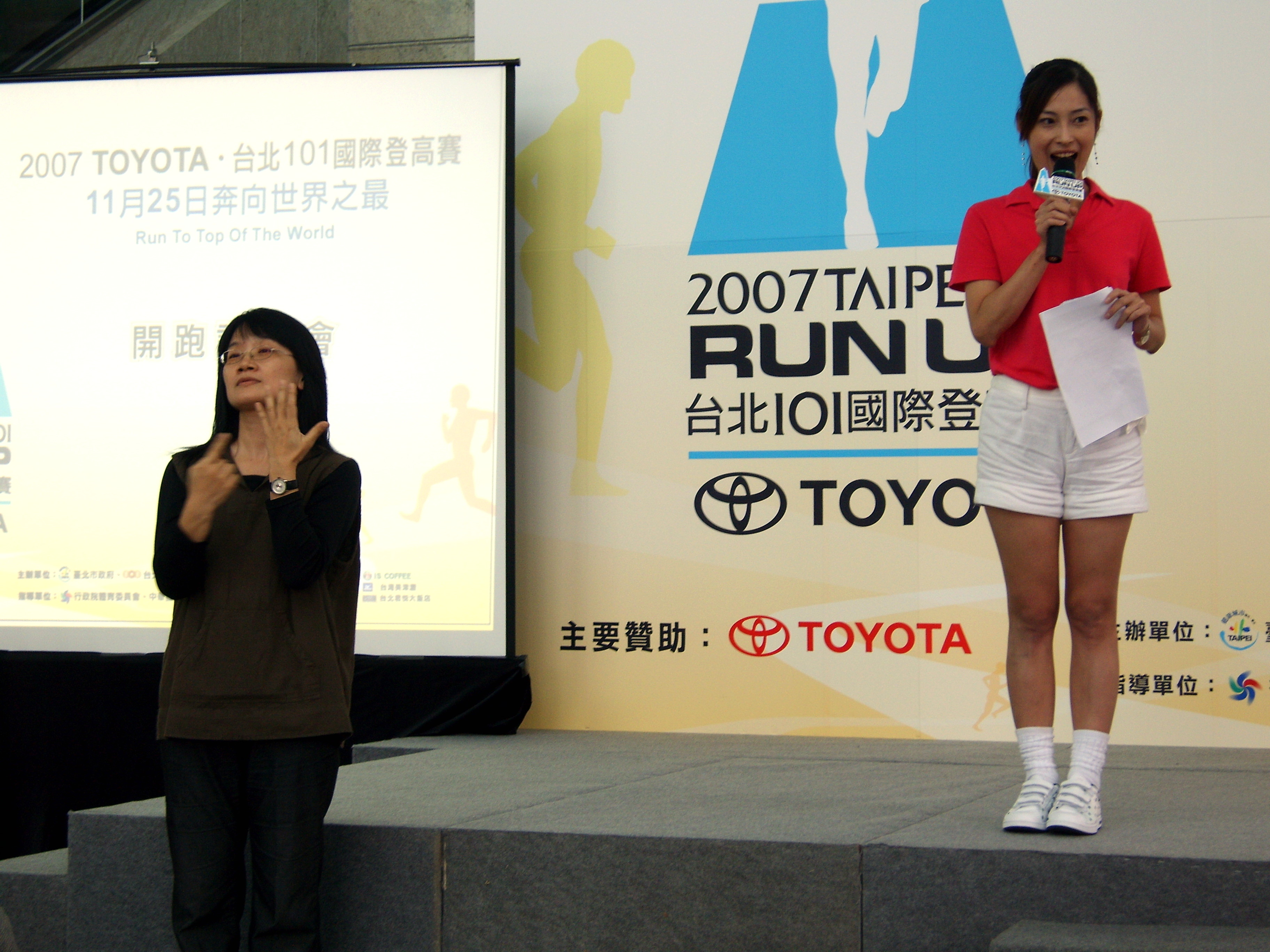 The Host and Sign Language Interpreter at Press Conference of 2007 Taipei 101 Run Up.